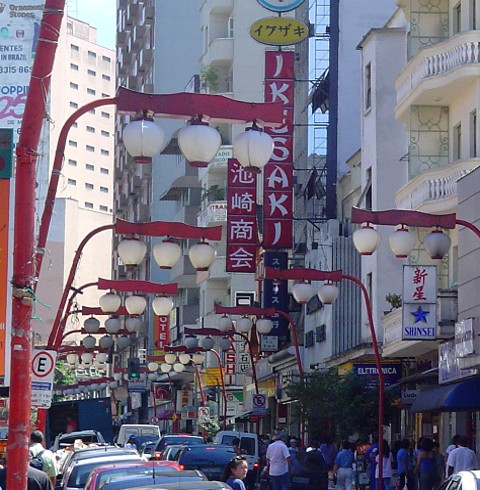 Asian influence is visible throughout Liberdade neighborhood in São Paulo, Brazil.